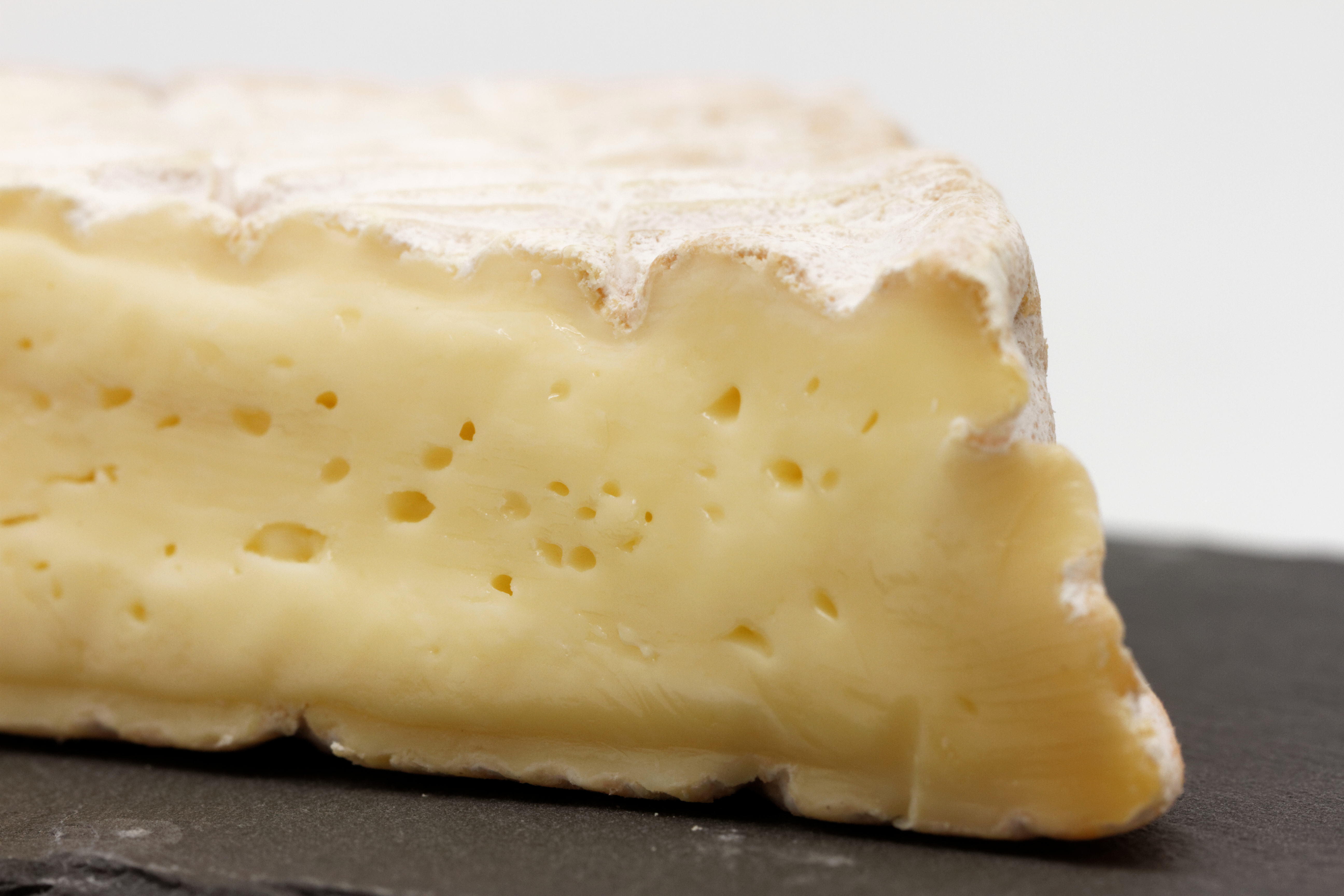 Pont-l'Évêque (cow's milk cheese)